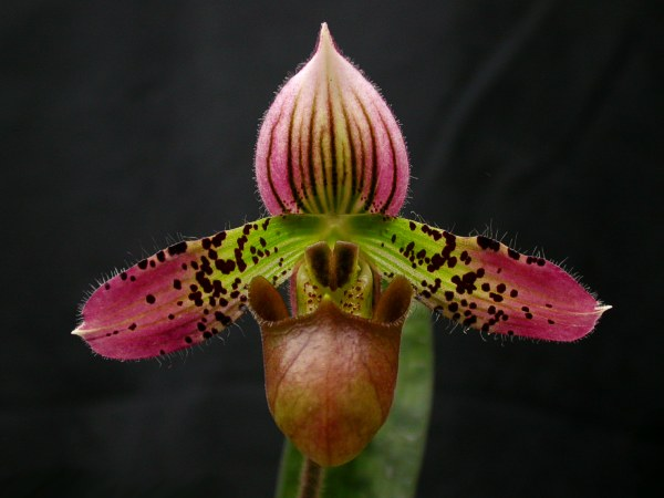 Paphiopedilum